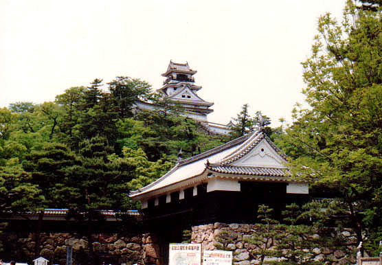 photo of Kōchi Castle(Japan's national important cultural property)